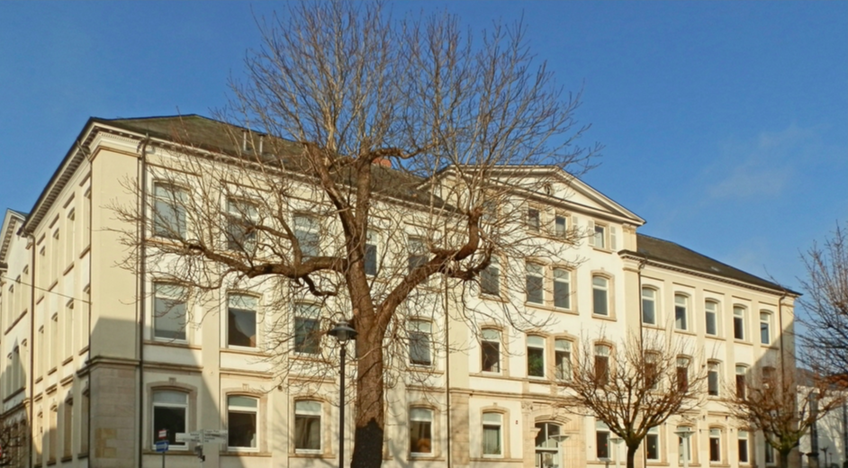 Freihof-Gymnasium Goeppingen